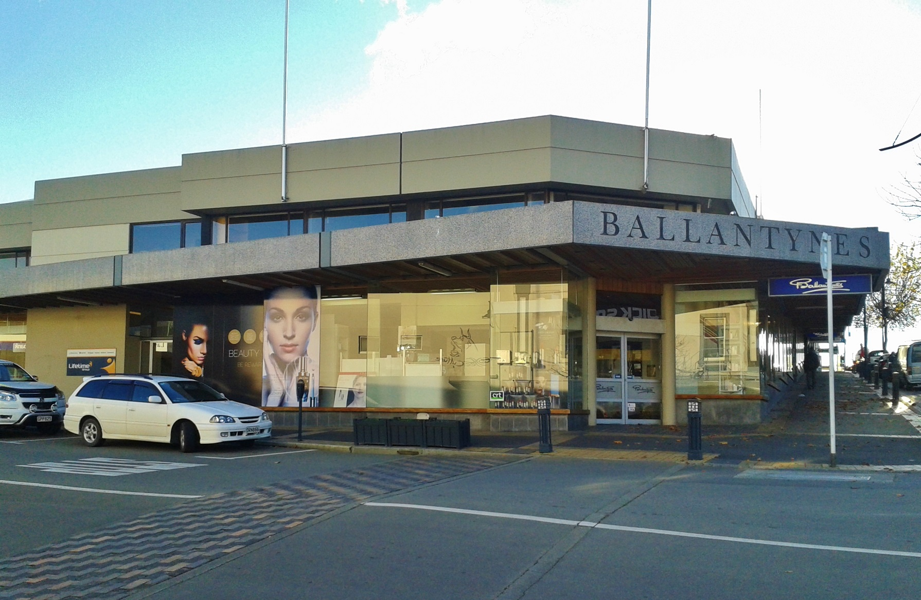 Timaru branch of Canterbury-based department store chain Ballantynes in 2014.